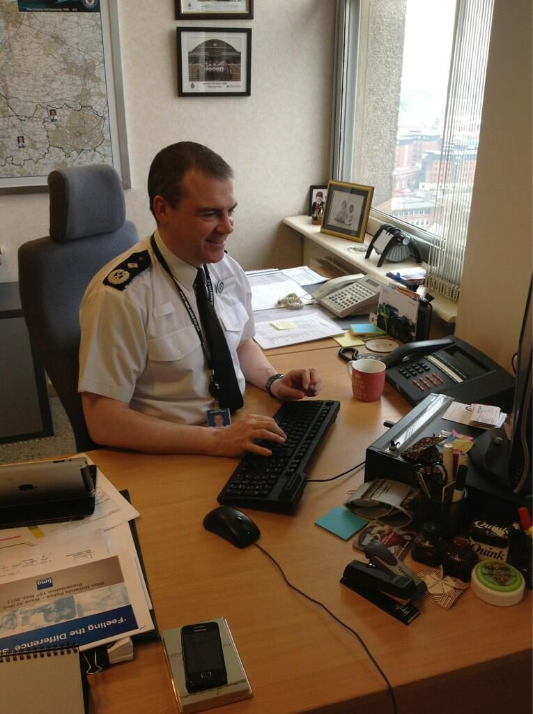 Yesterday the Deputy Chief Constable held an online web chat with the public which covered a wide range of issues, from recruitment, traffic and gangs to police dogs, identity theft and anti-social behaviour. If you missed the chat you can catch up with it here